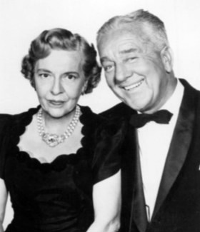 Publicity photo of Madge Kennedy and Jack Mulhall from the television program Goodyear Theater.